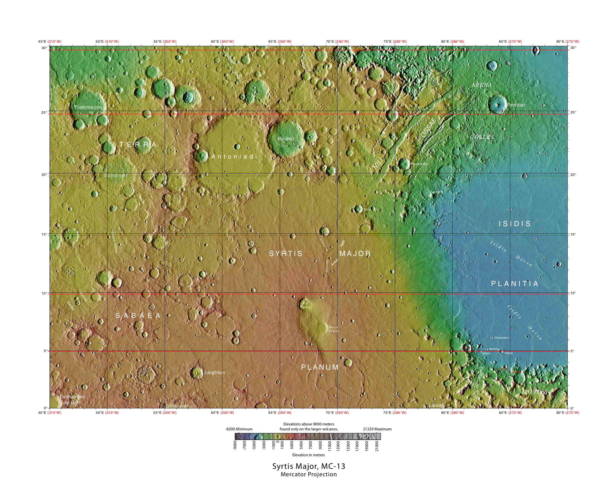 MOLA Topographic Map of Syrtis Major Quadrangle (MC-13) on the planet Mars. NOTE: Converted the original PDF file to a PNG File (via GIMP v2.8.4 program) - and uploaded to Wikimedia Commons.